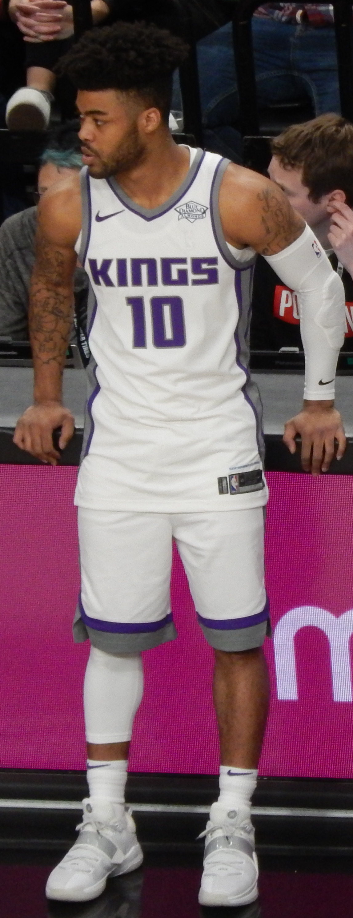 Frank Mason #10 of the Sacramento Kings against the Portland Trail Blazers on February 27, 2018 at Moda Center in Portland, Oregon.